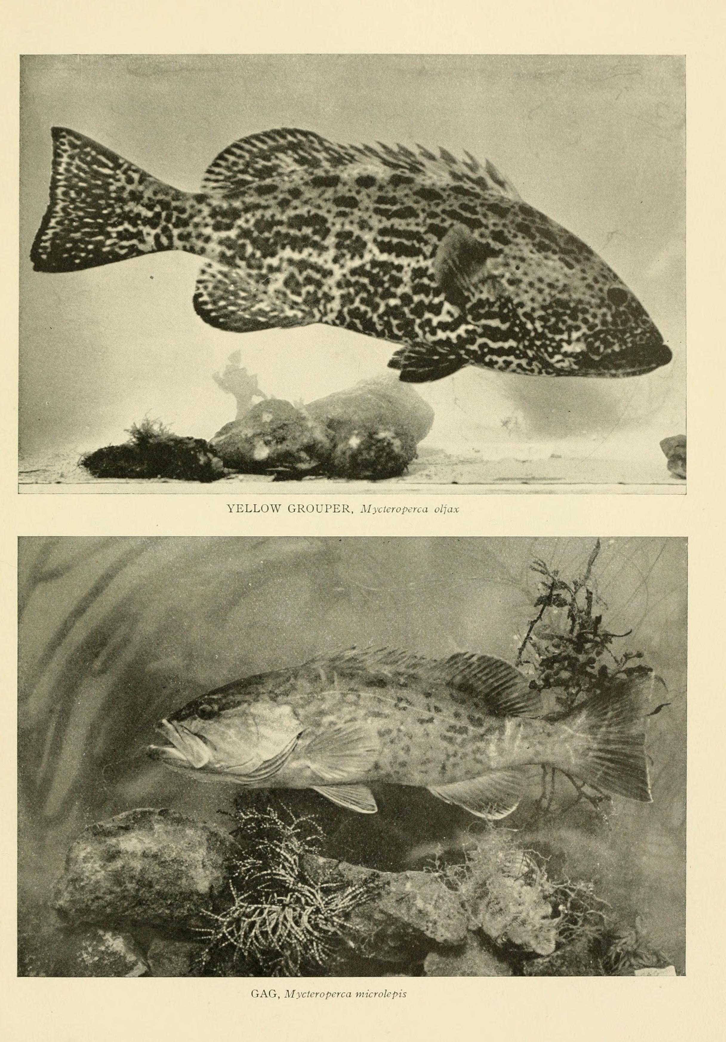 American food and game fishes : a popular account of all the species found in America north of the Equator, with keys for ready identification, life histories and methods of capture / by David Starr Jordan and Barton Warren Evermann ; illustrated with colored plates and text drawings, and with photographs from life by A. Radclyffe Dugmore.